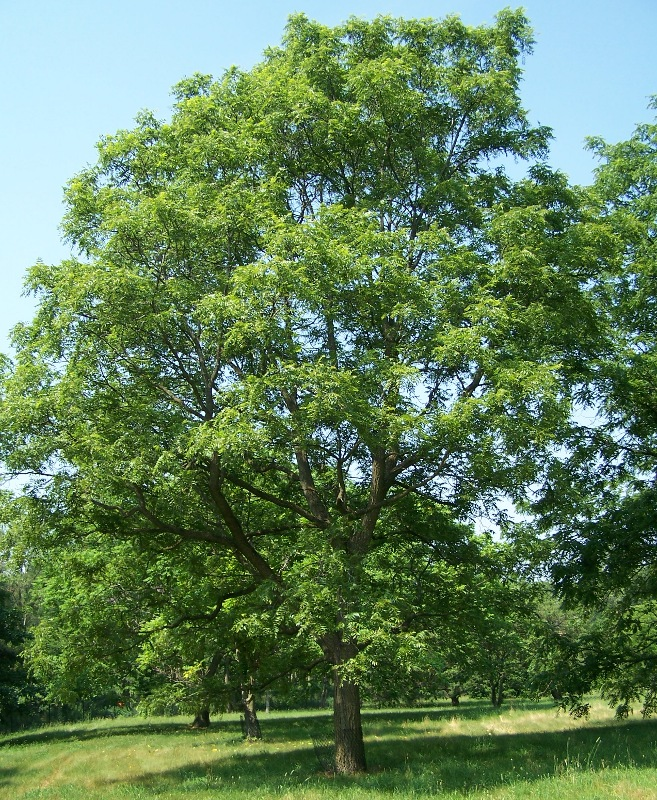 Juglans major (Arizona Walnut). Morton Arboretum acc. 614-47*1. 52 years old at this photo, grown from seed.